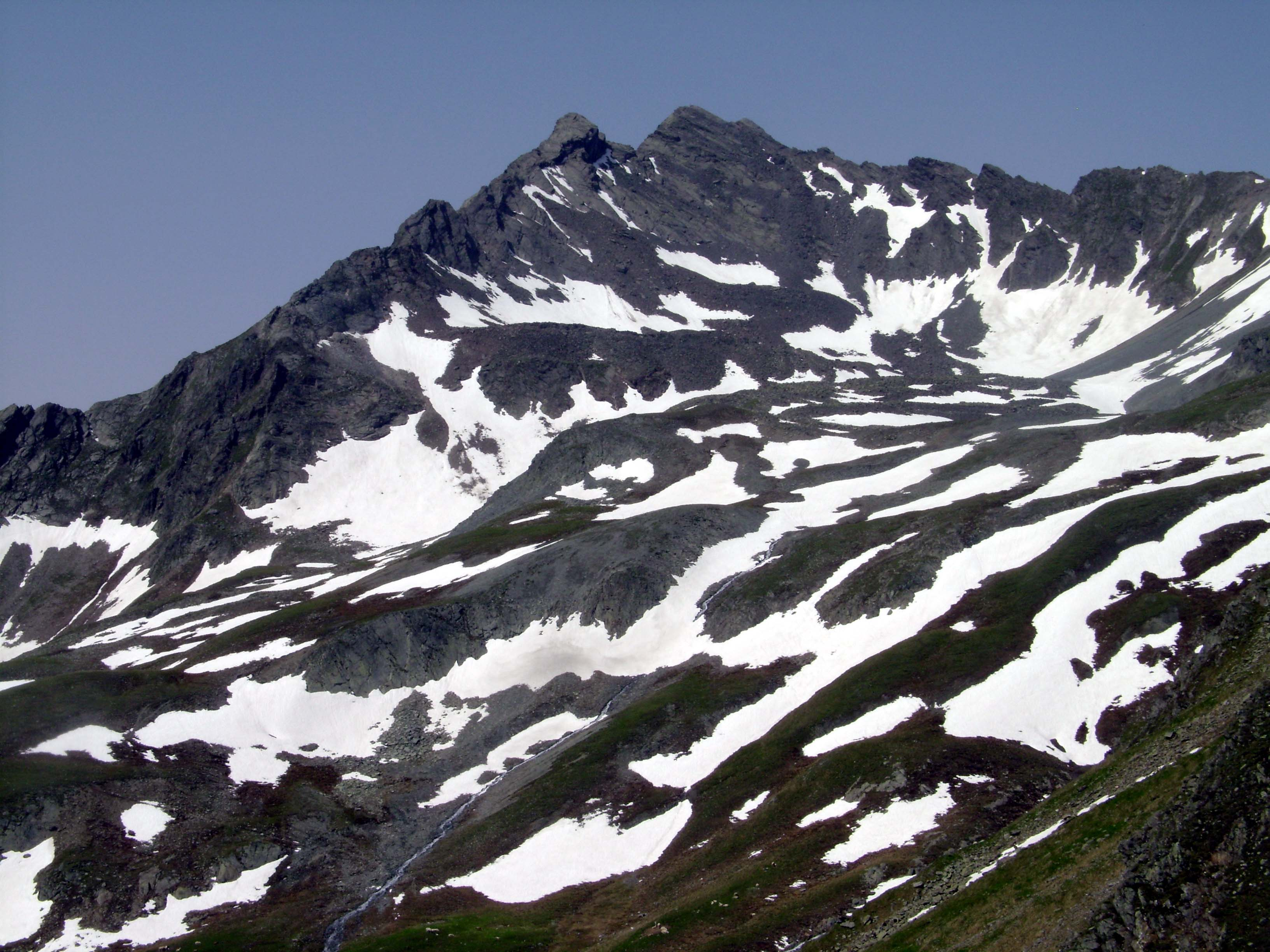 Schöntalspitze from Northeast